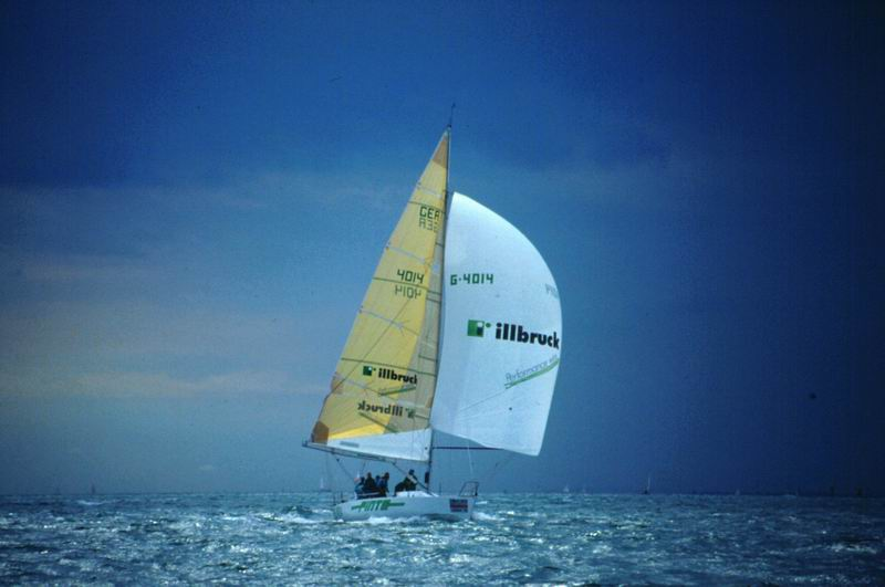 Pinta Admirals Cup 93 spi